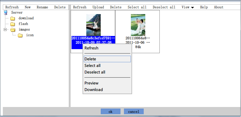 screenshot